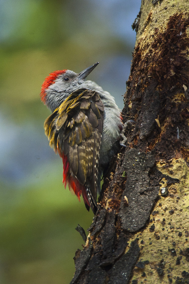 Gray Woodpecker - KenyaNH8O2206